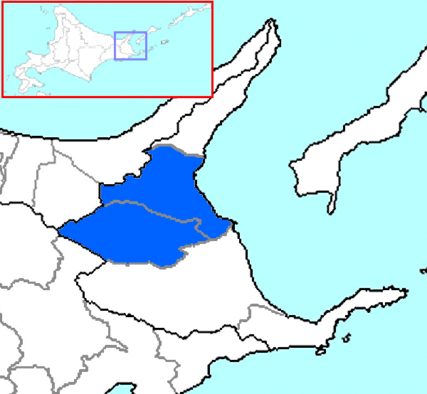 The location of Shibetsu District in Nemuro Subprefecture, Hokkaido Prefecture, Japan.